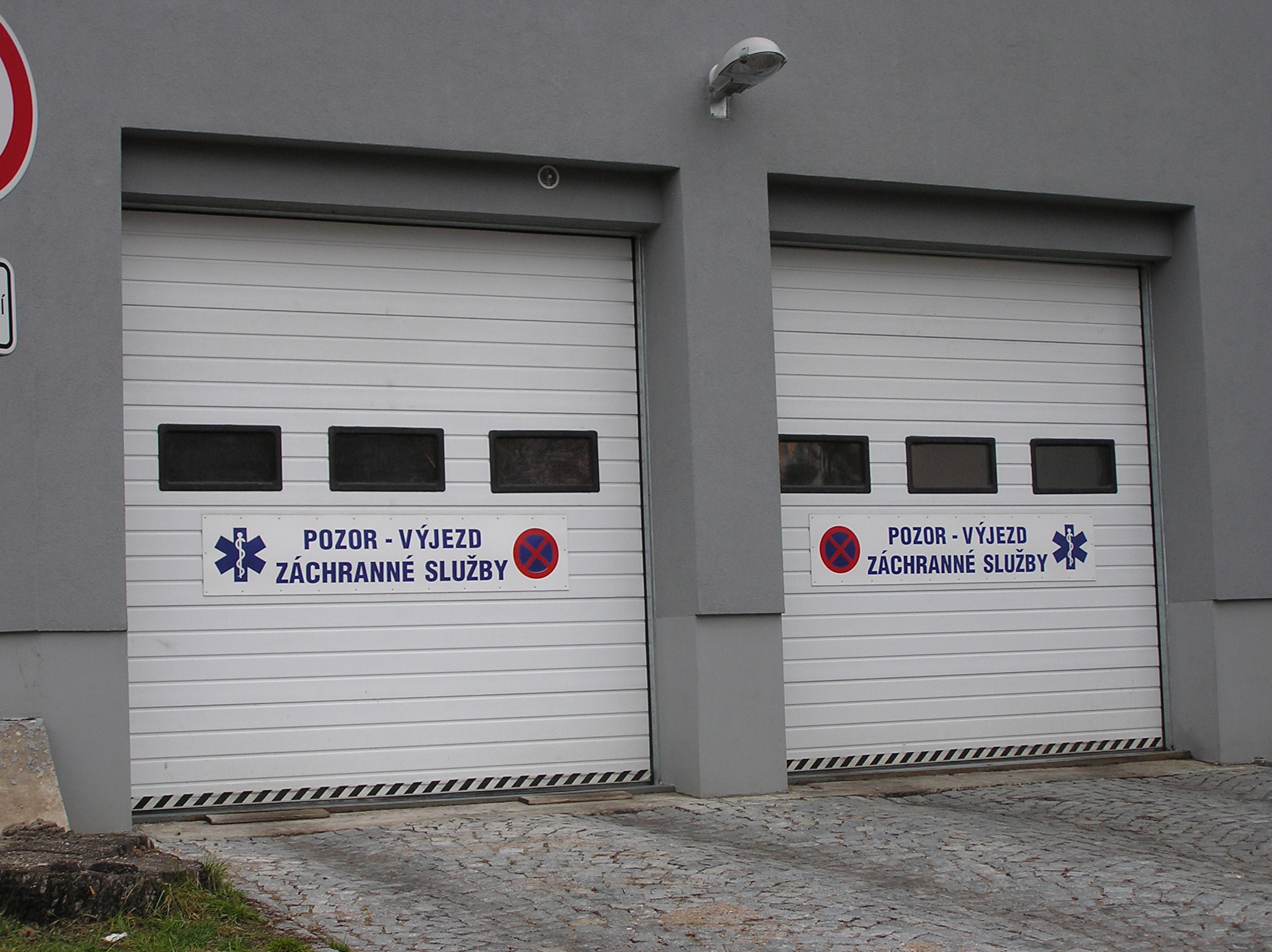 Garages of the ambulance vehicles of the Emergency Medical Service of Pardubice Region, Pardubice, Czech Republic